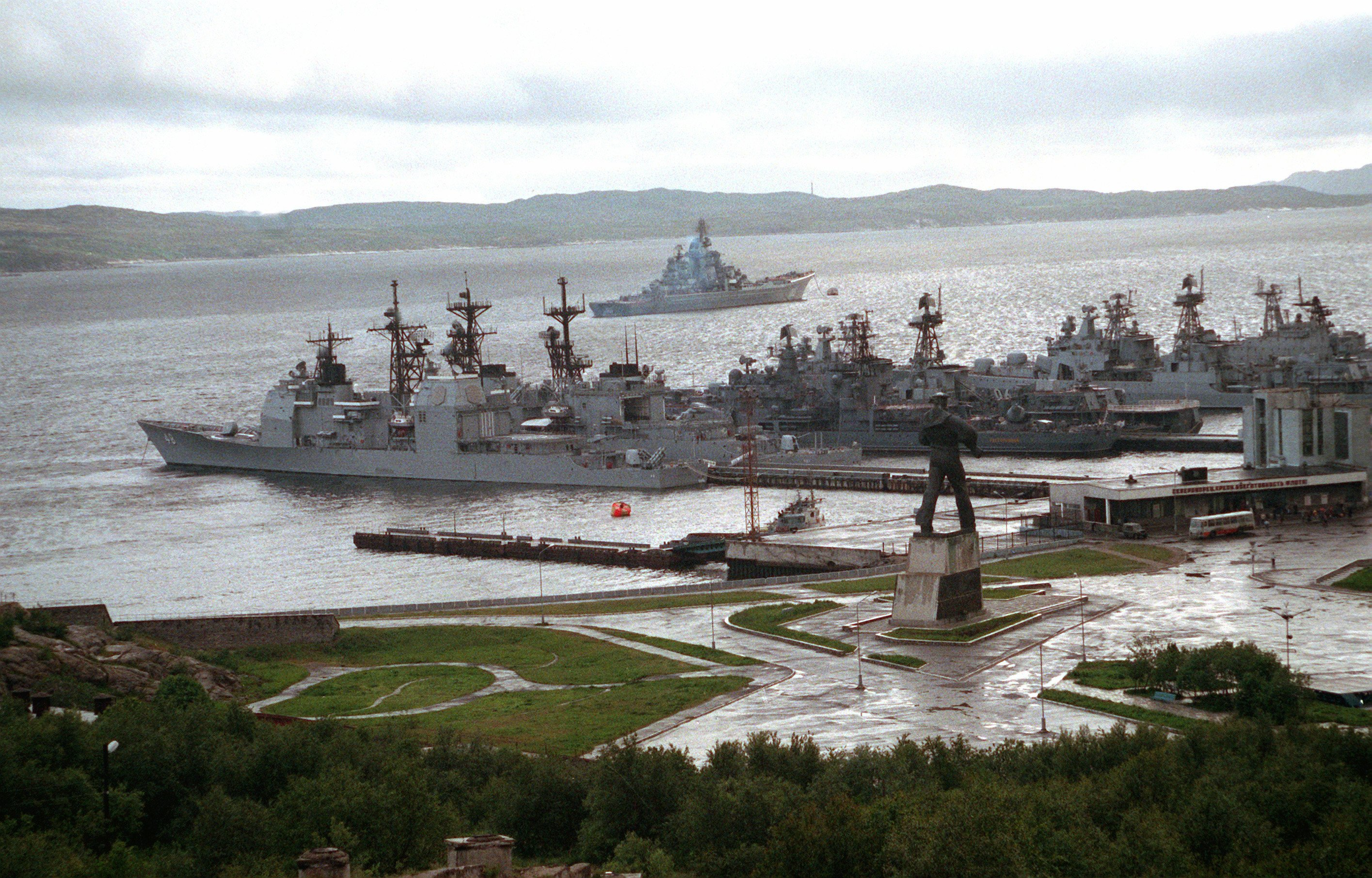 Released to Public ID: DNSC9300275 Service Depicted: Multi-National The guided missile cruiser USS YORKTOWN (CG-48) and the destroyer USS O'BANNON (DD-987) are moored beside Russian cruiser and destroyers during a port call. The American ships are visiting Severomorsk as part of an ongoing exchange between the navies of the United States and the Commonwealth of Independent States. Camera Operator: CWO2 TONY ALLEYNE Date Shot: 1 Jul 1992